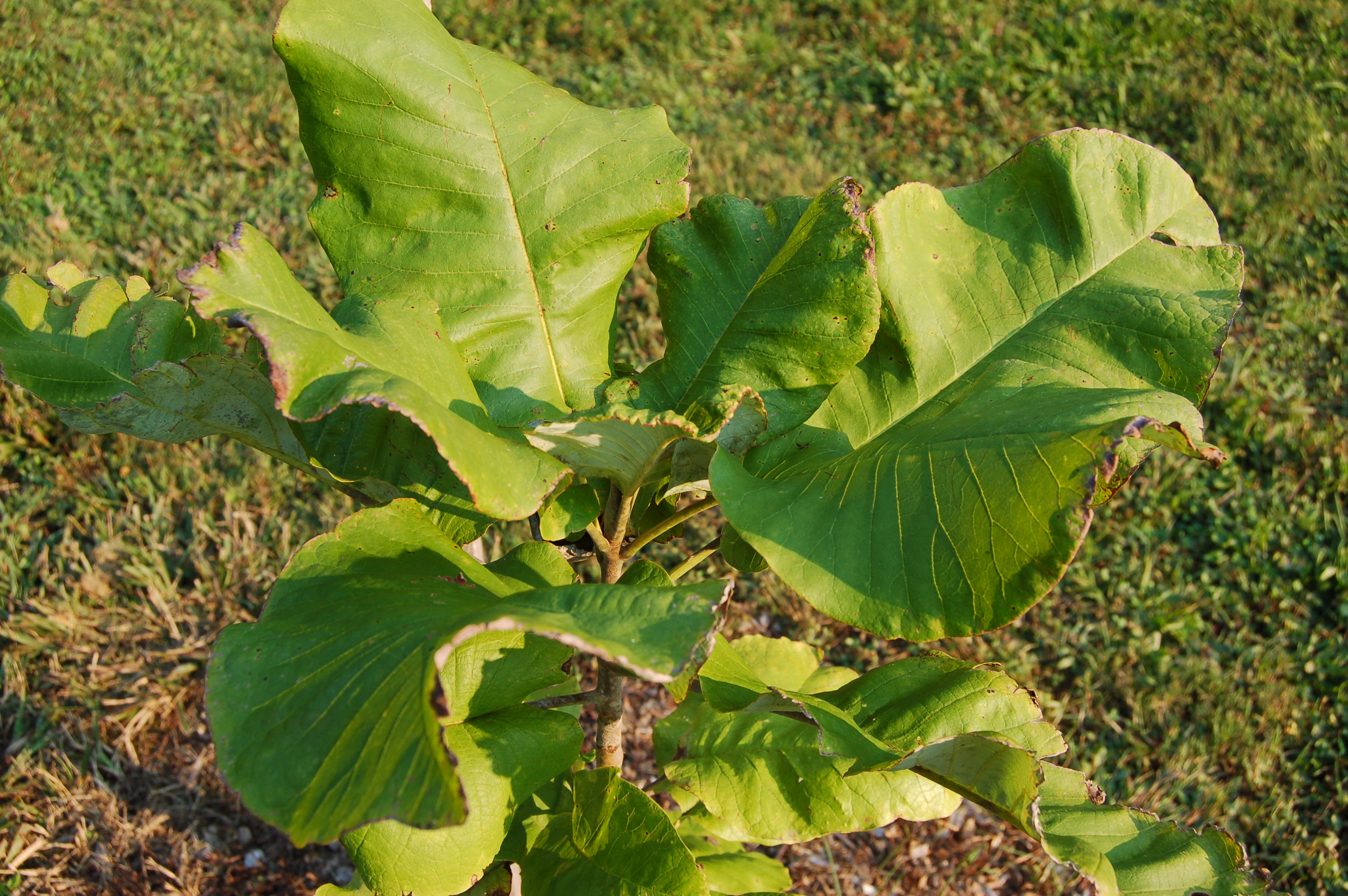 Photograph of the Bigleaf Magnoliaen (Magnolia macrophylla en ). Photo taken at the Tyler Arboretum where it was identified.